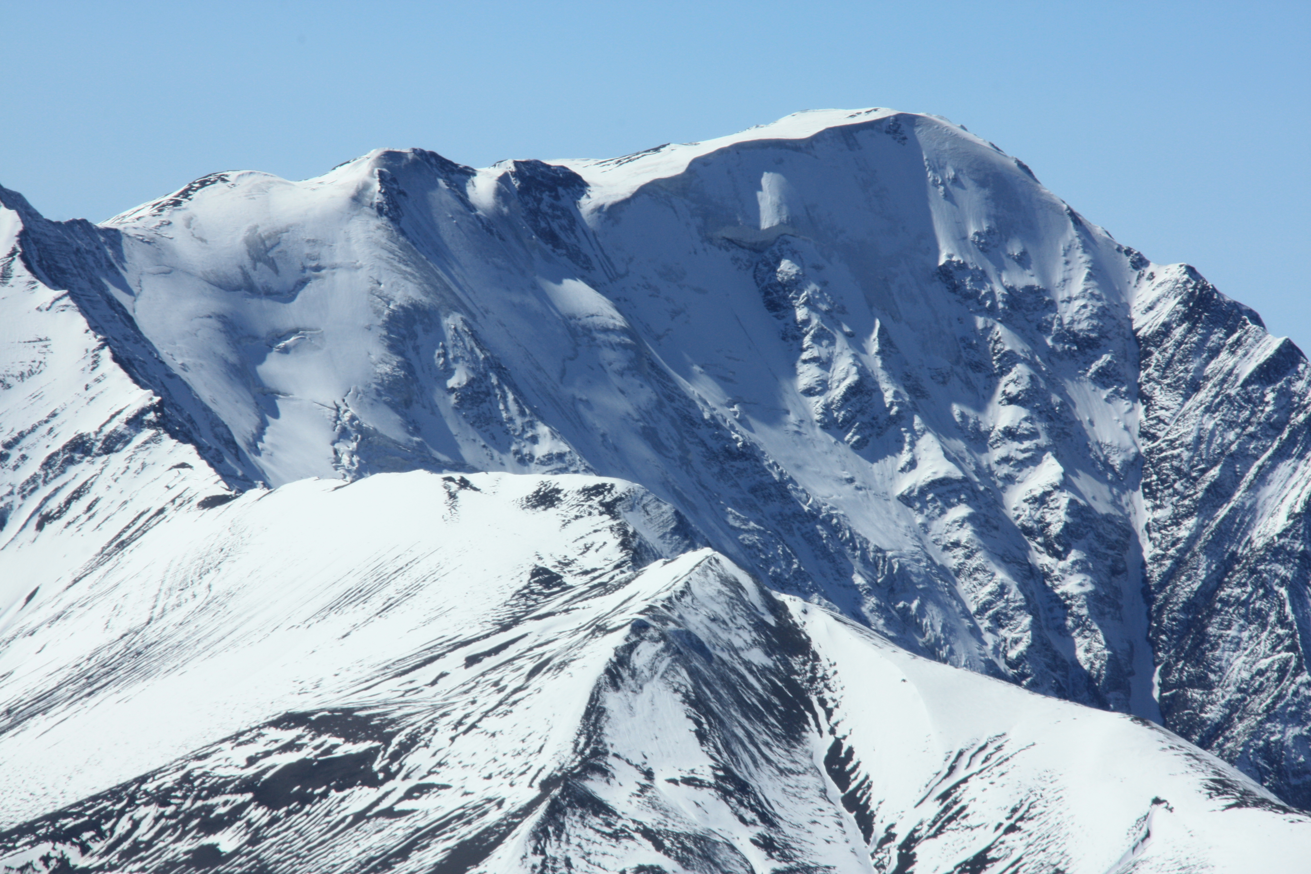 Bazardüzü as seen from Shahdag